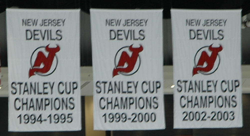 New Jersey Devils Stanley Cup Banners in the Prudential Center